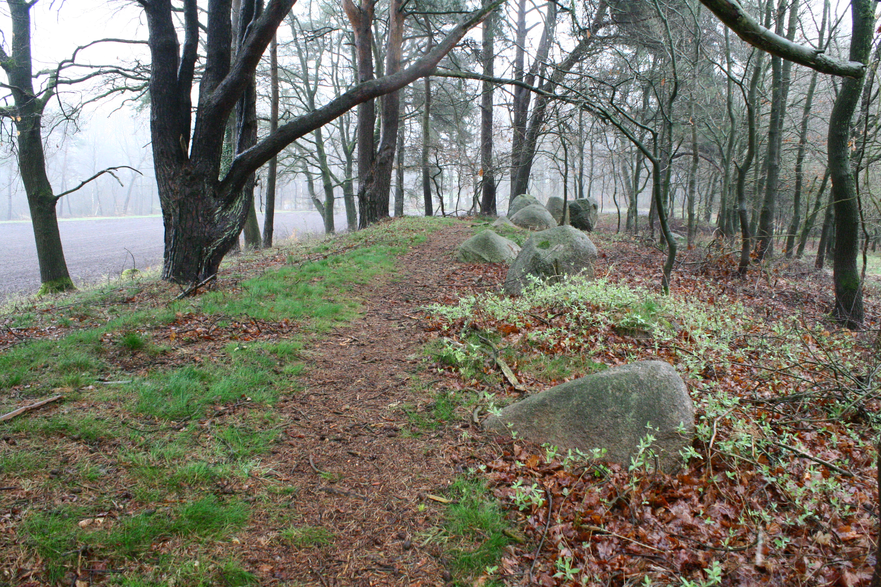 Megalithic tomb Horneburg 2